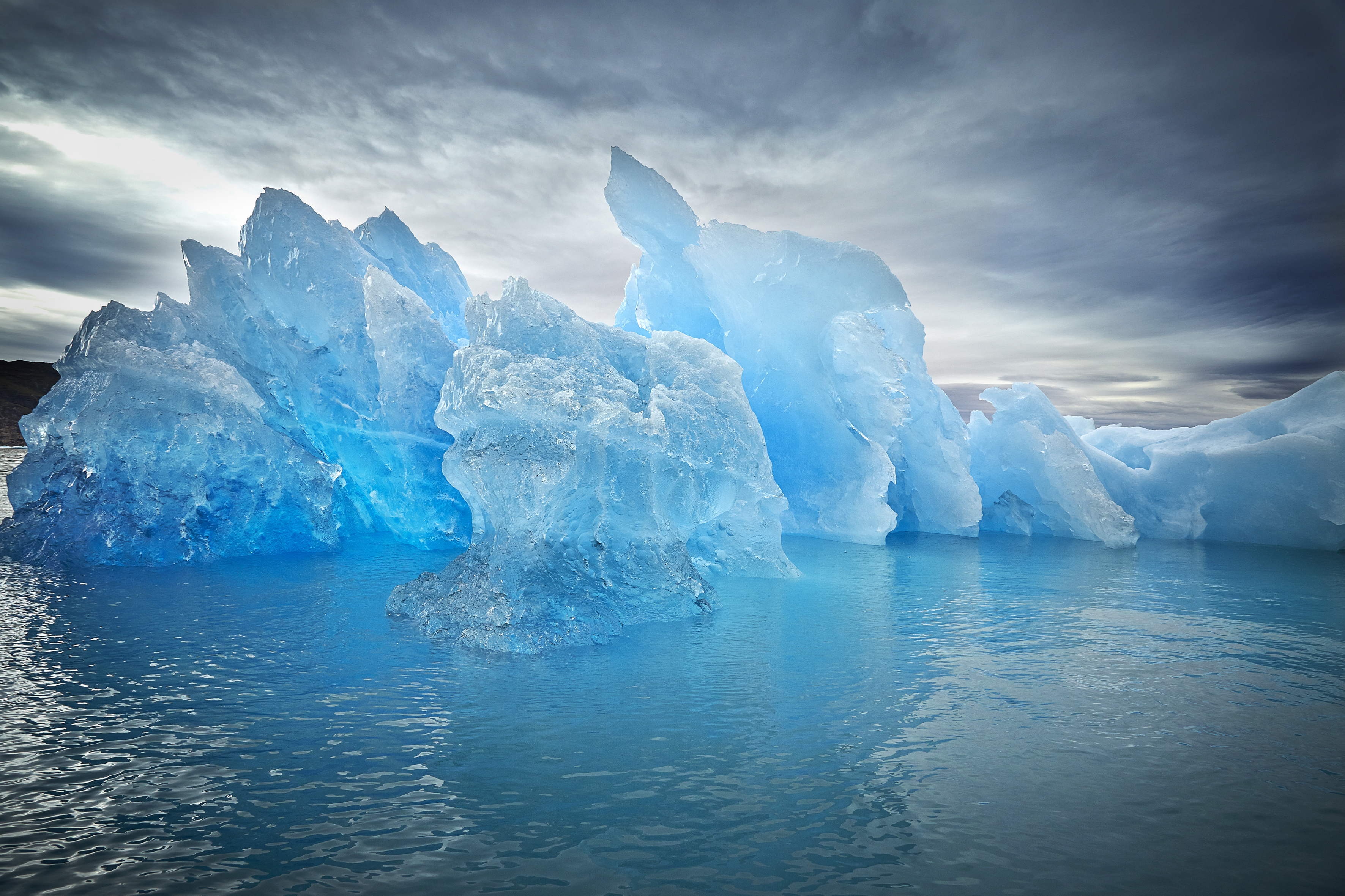 Photo by Attribution 3.0 (